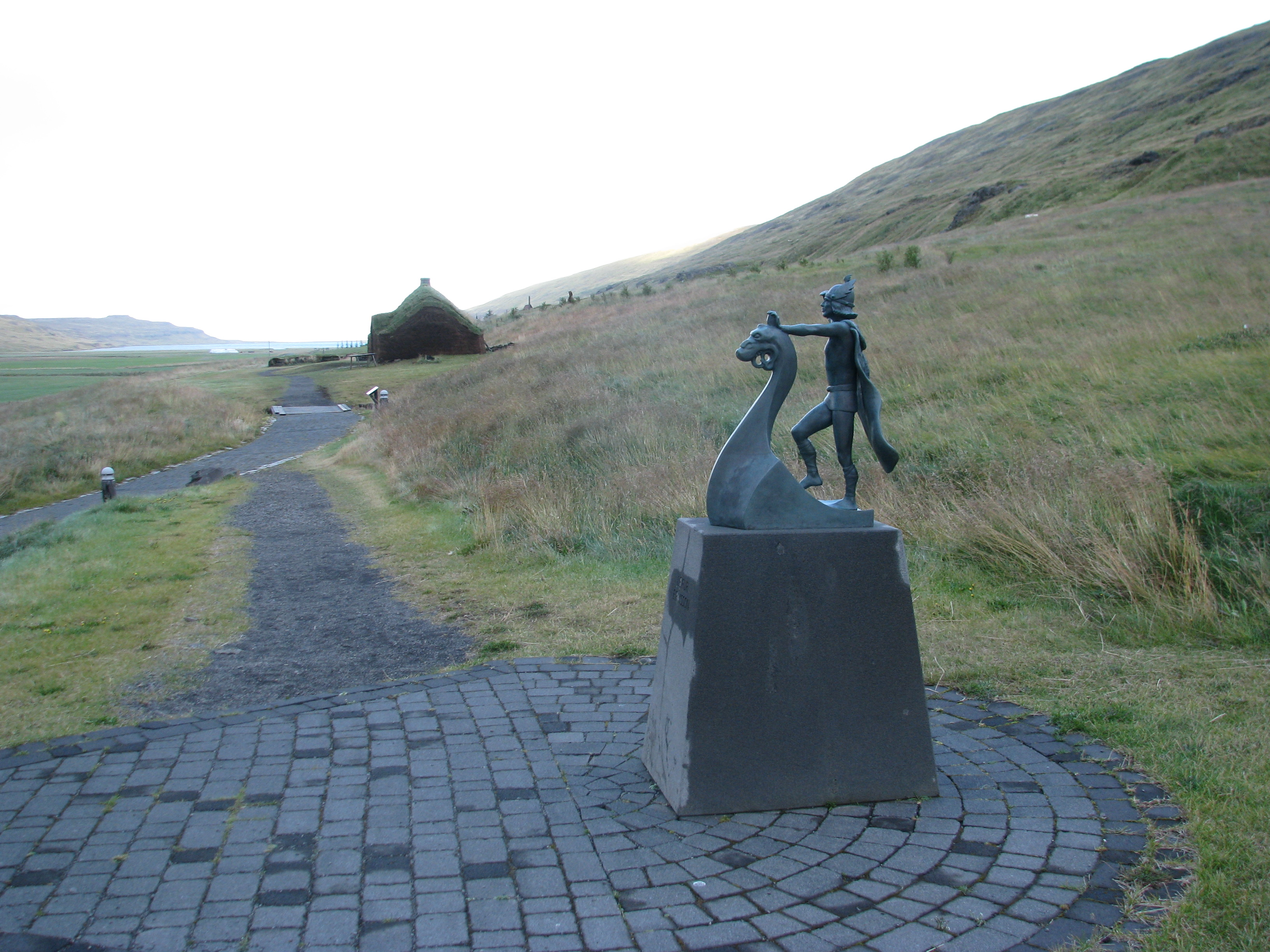 Eiríksstaðir, the homestead of the Viking Erik the Red, Iceland